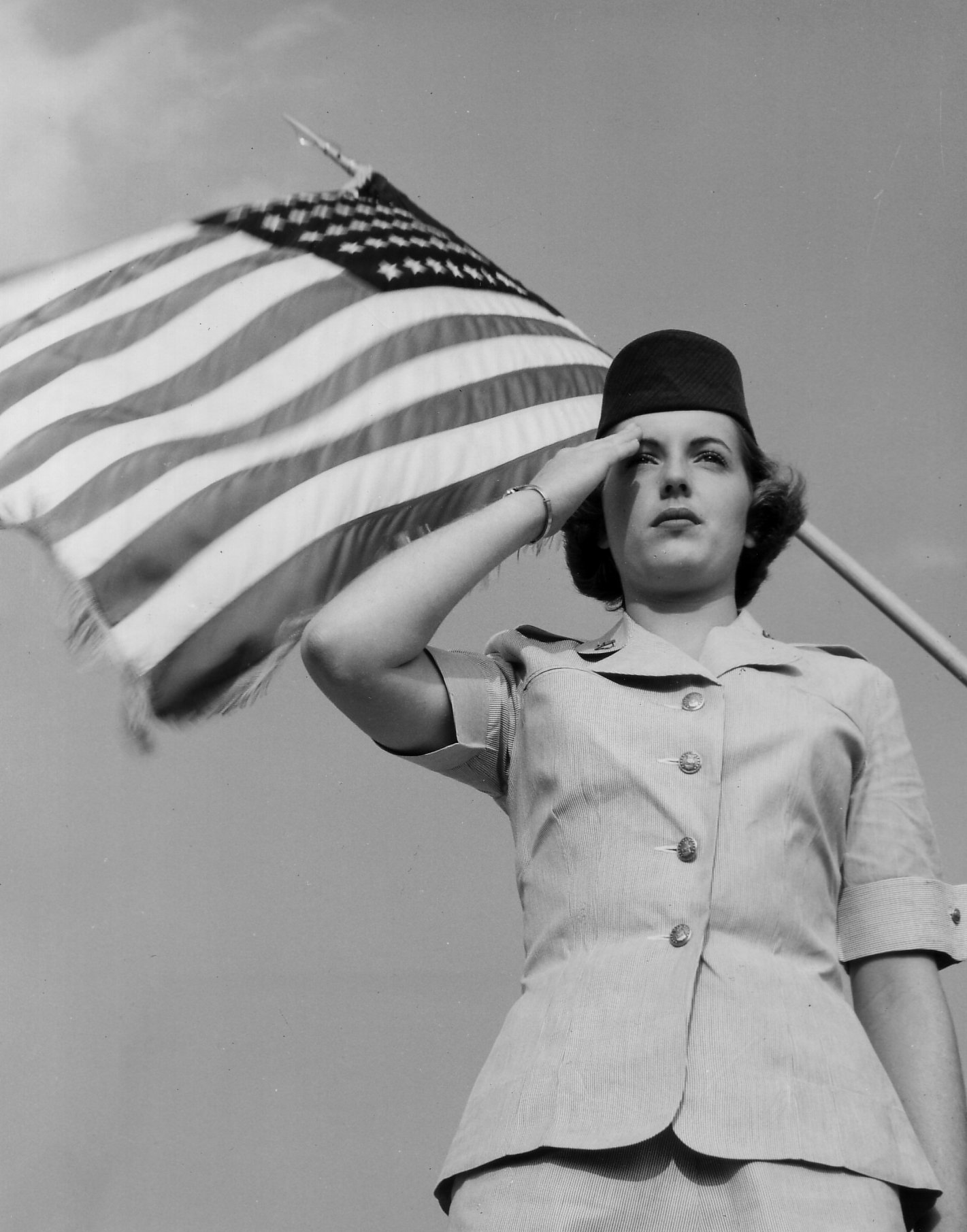 WAF Officer candidate salutes in front of US flag. Lackland Air Force Base, Texas. November 1952. Source: (U.S. Air Force photo)